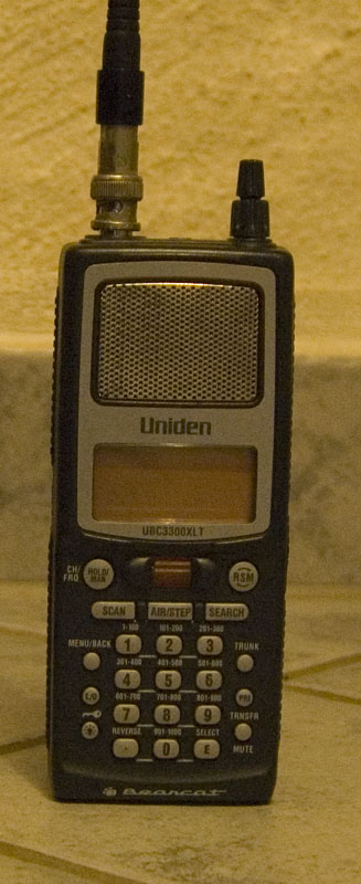 Uniden Bearcat 3300XLT radio scanner